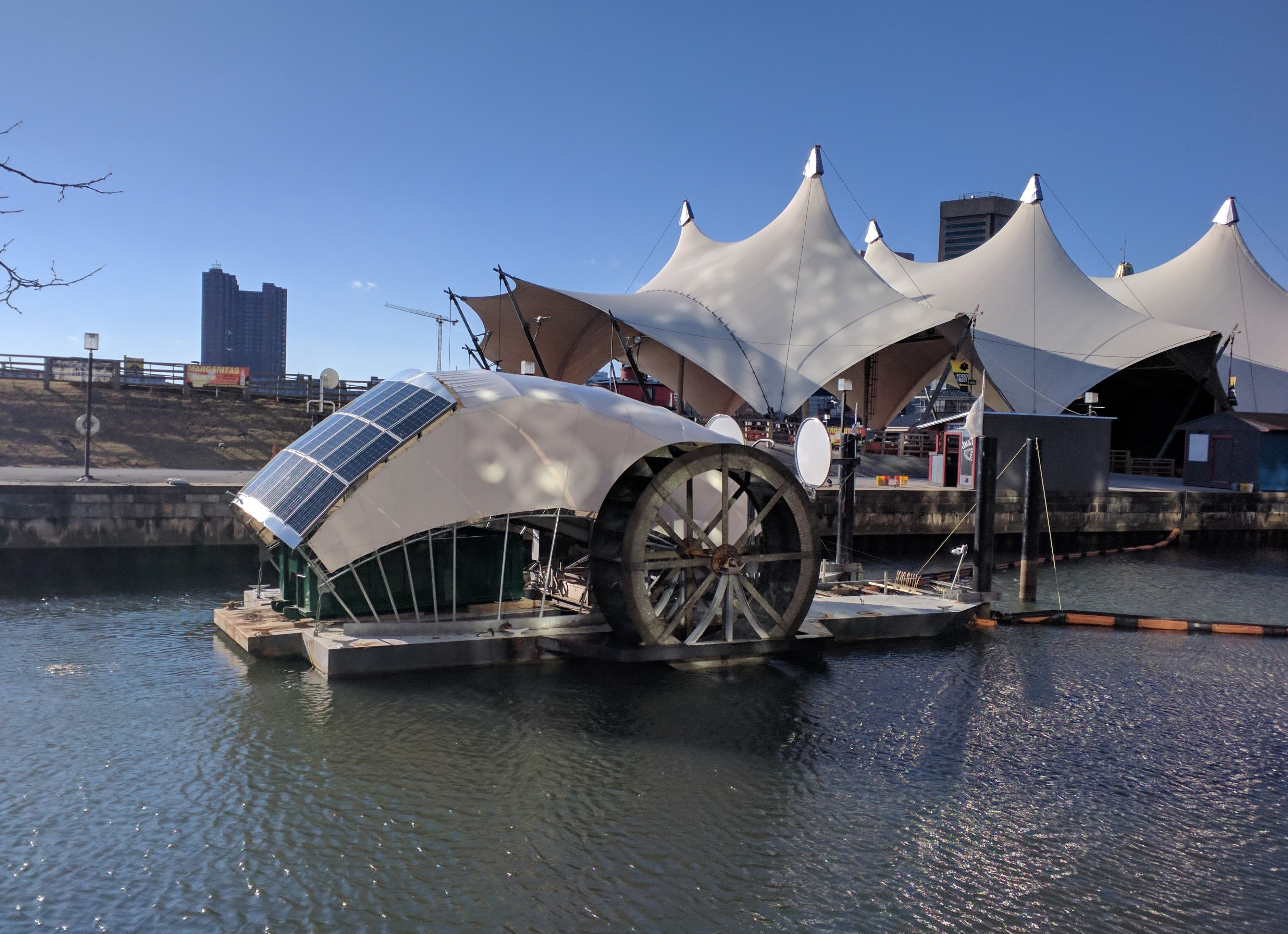 Mr. Trash Wheel at Pier Six Pavilion, Baltimore, Feb 2016